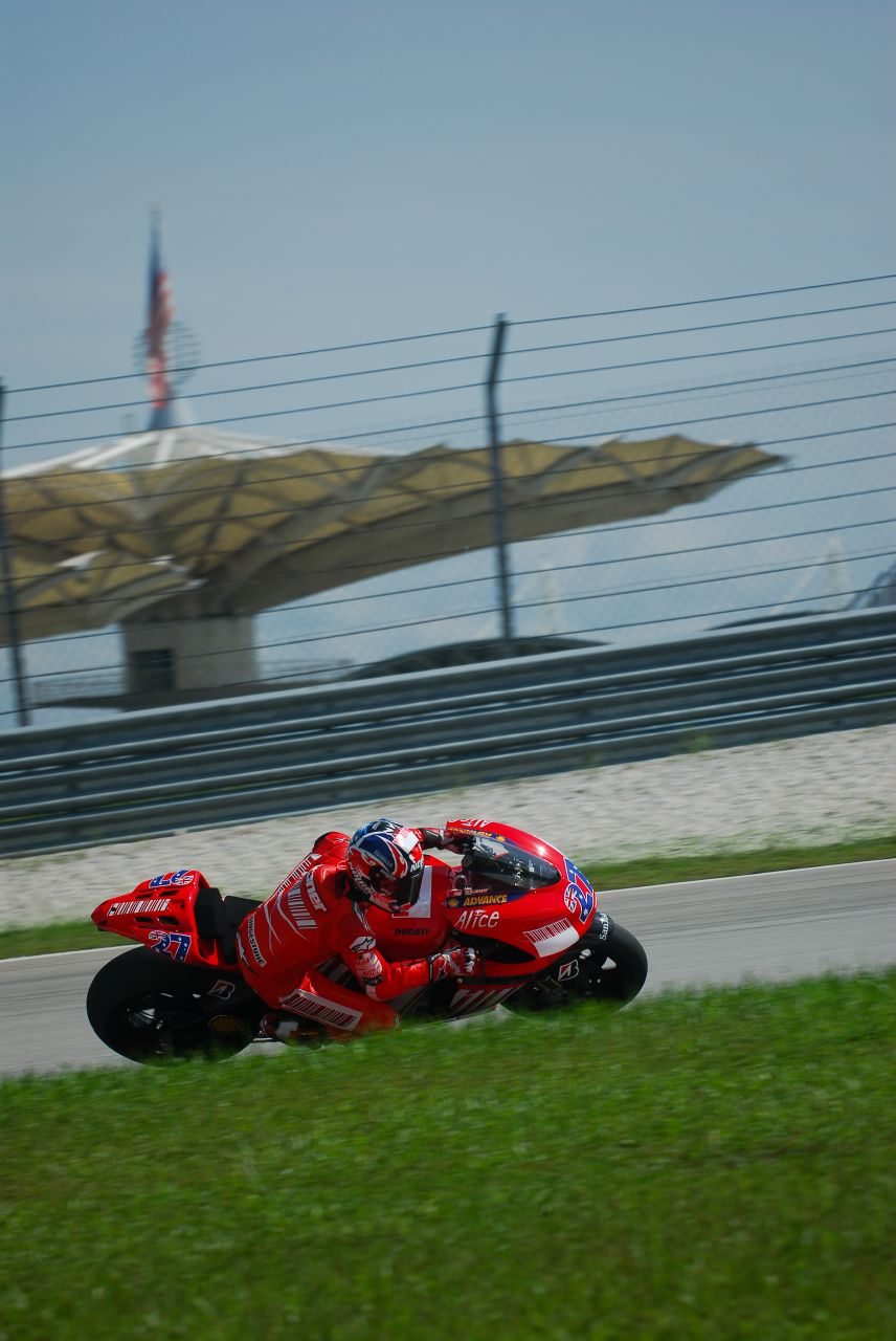 Australian MotoGP rider Casey Stoner powers his Ducati during MotoGP pre-season test session at Sepang International Circuit outside Kuala Lumpur January 22, 2007. Rashidi Saleh@jaggat (MALAYSIA)